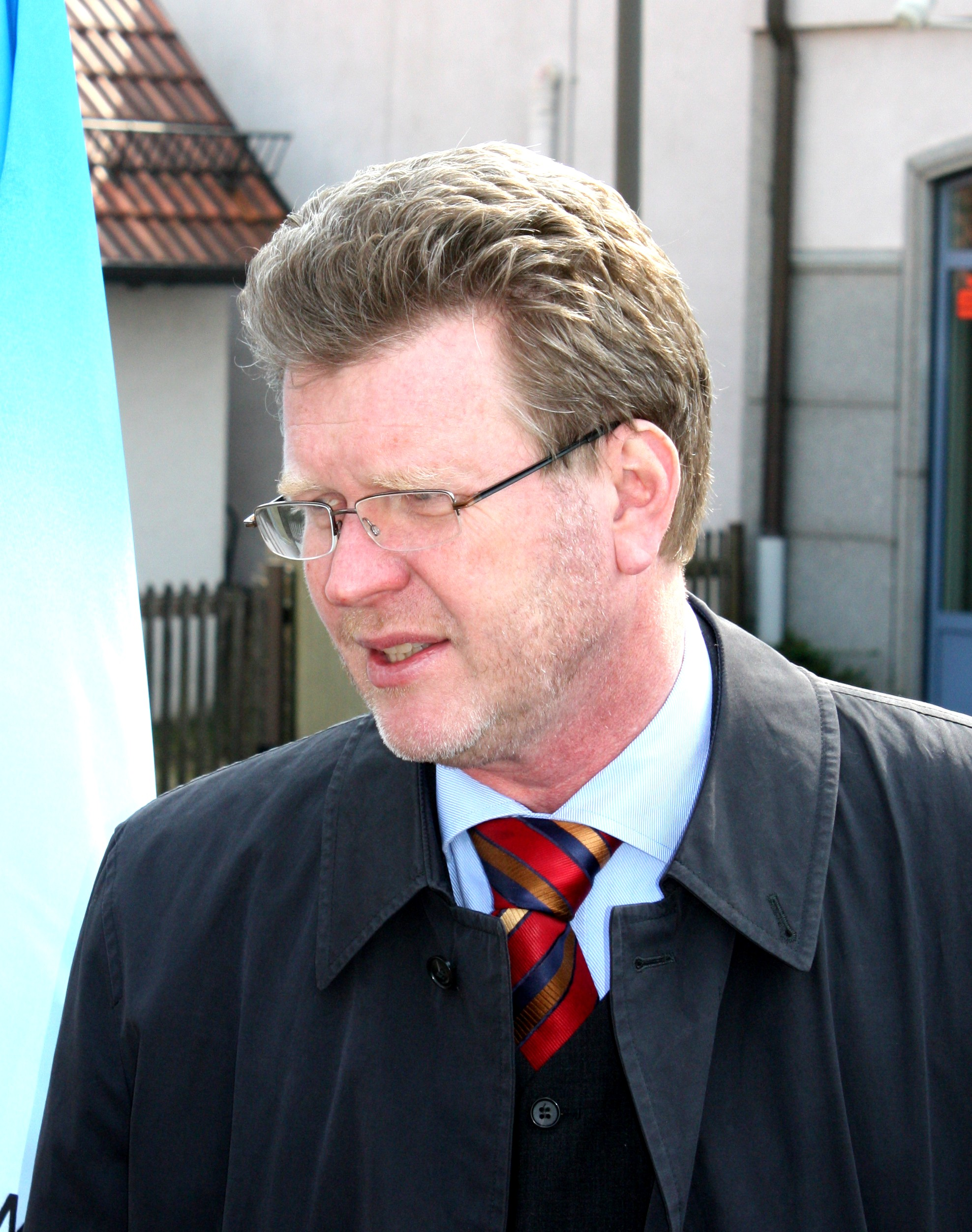 Marcel Huber